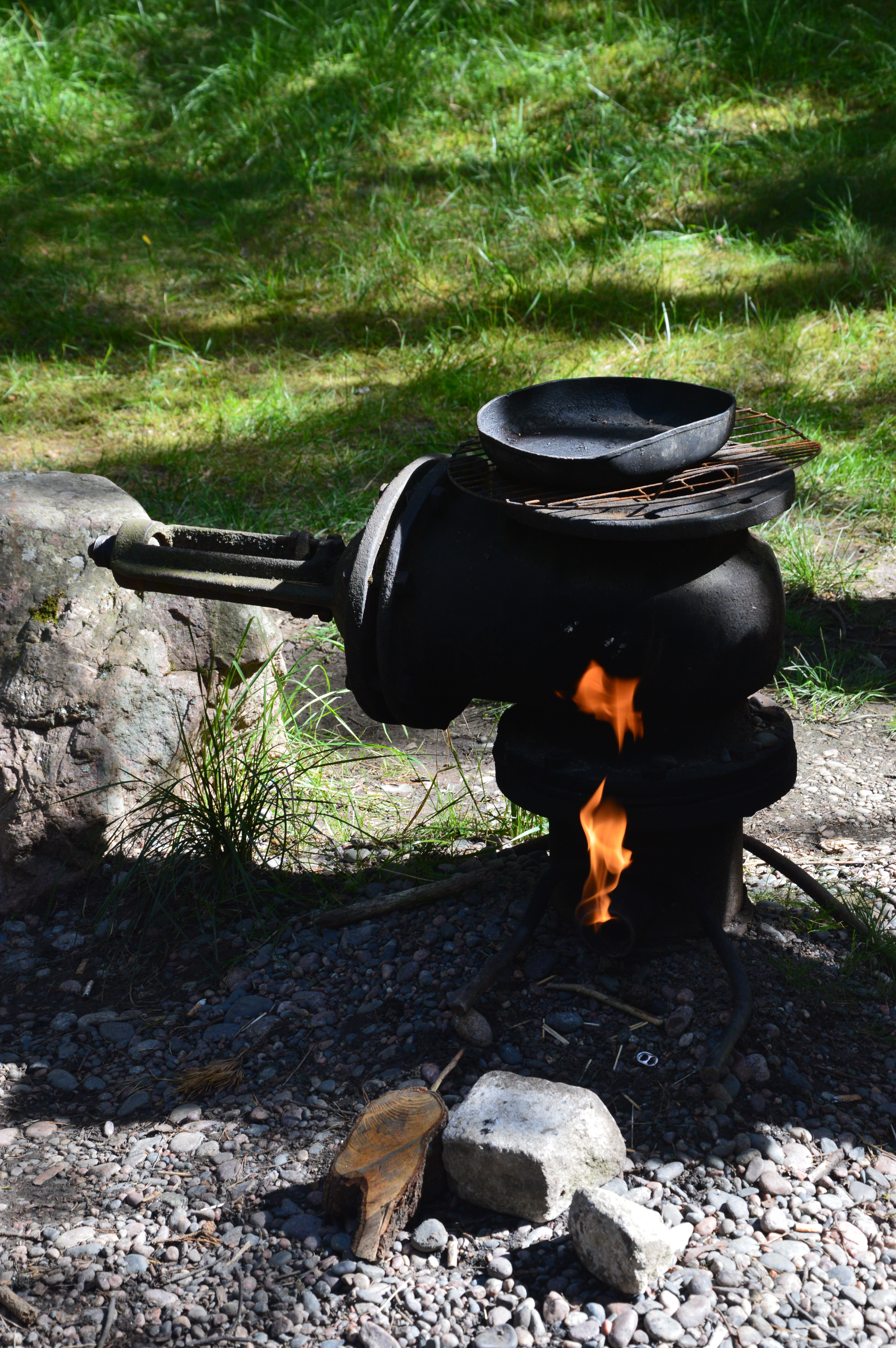 Gas well in Prangli island. It is mainly a methane gas (95-96%).